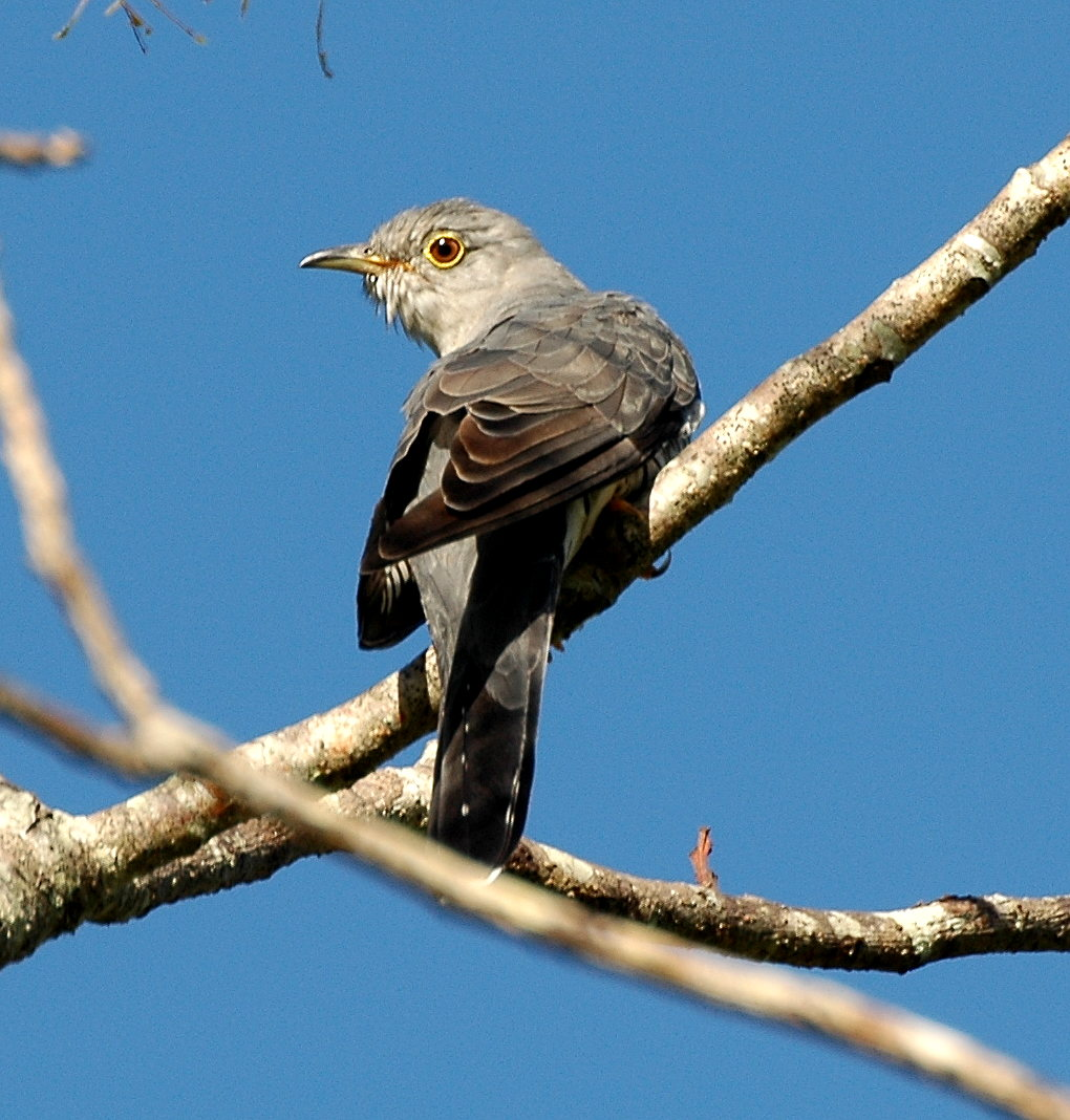 Oriental Cuckoo Cuculus optatus. Mt Glorious SE Queensland, Australia.